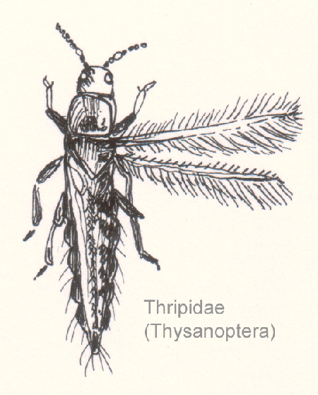 A drawing by Halvard from Norway.